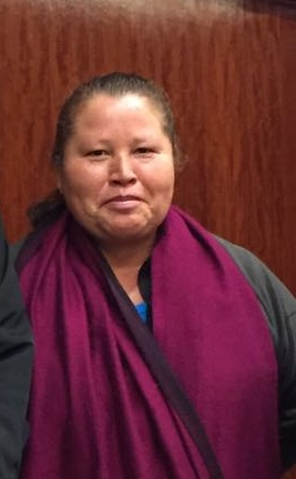 Norma Romero in Santiago de Compostela, Spain